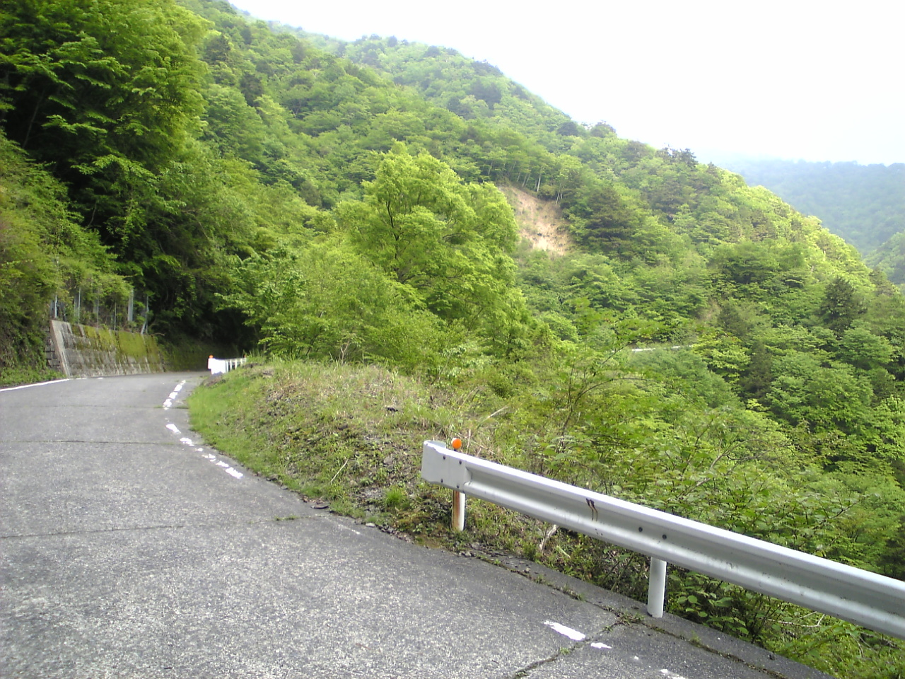 The Toyooka Umegashima Forest Road in Shizuoka City